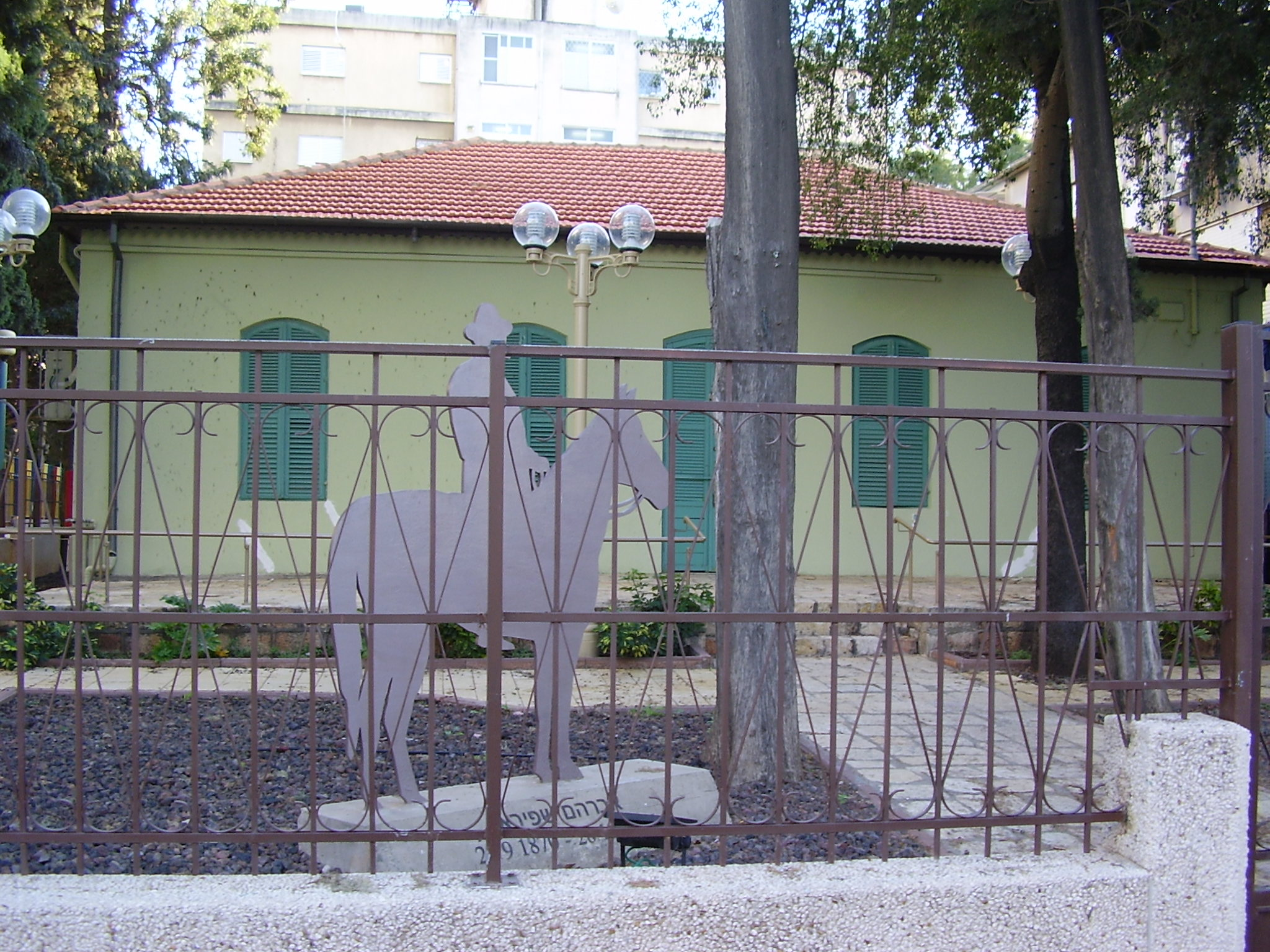 avraham shapira house in petakh -tikva